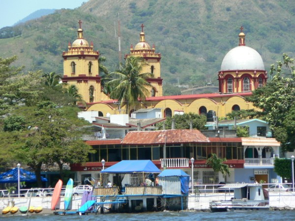 View of Catemaco taken from Laguna Catemaco